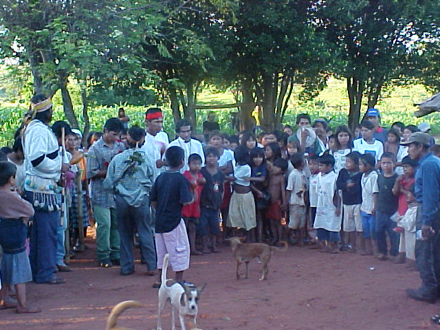 A group of Guarani Ñandeva during a religious meeting in a Guarani reservation, Mato Grosso do Sul, Brasil.